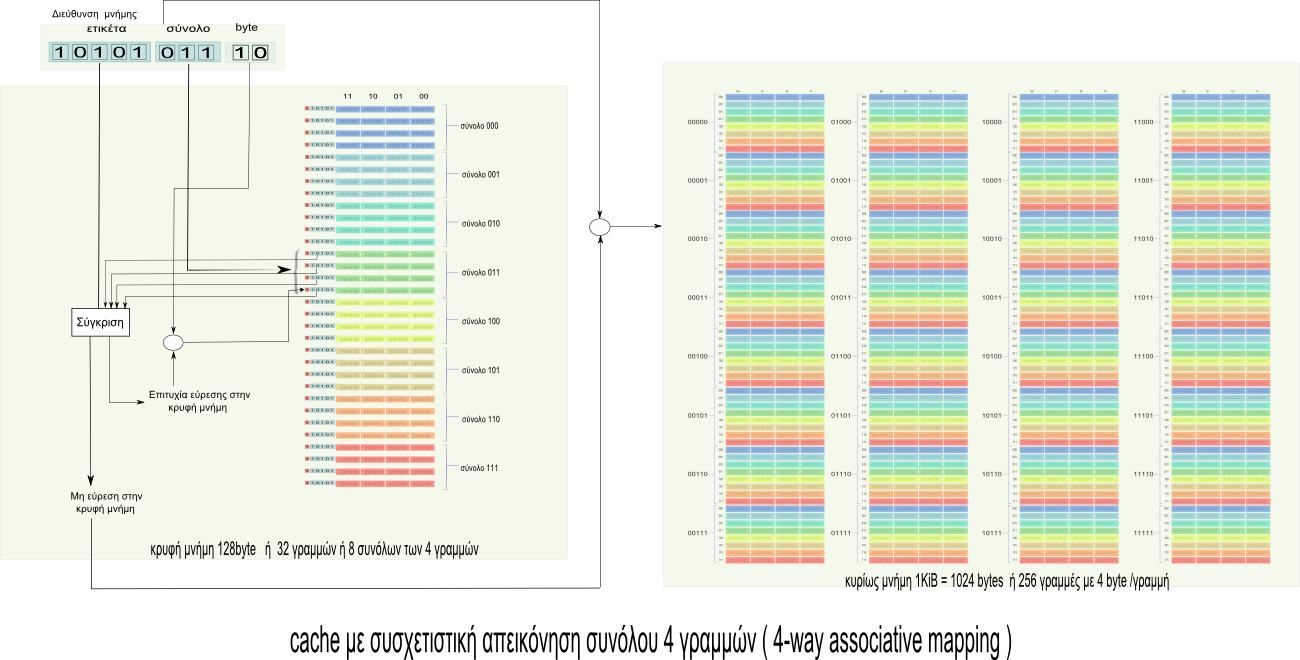 Associative cache diagram